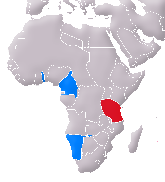 Location of German East Africa (red) and the other German colonies in Africa (blue)